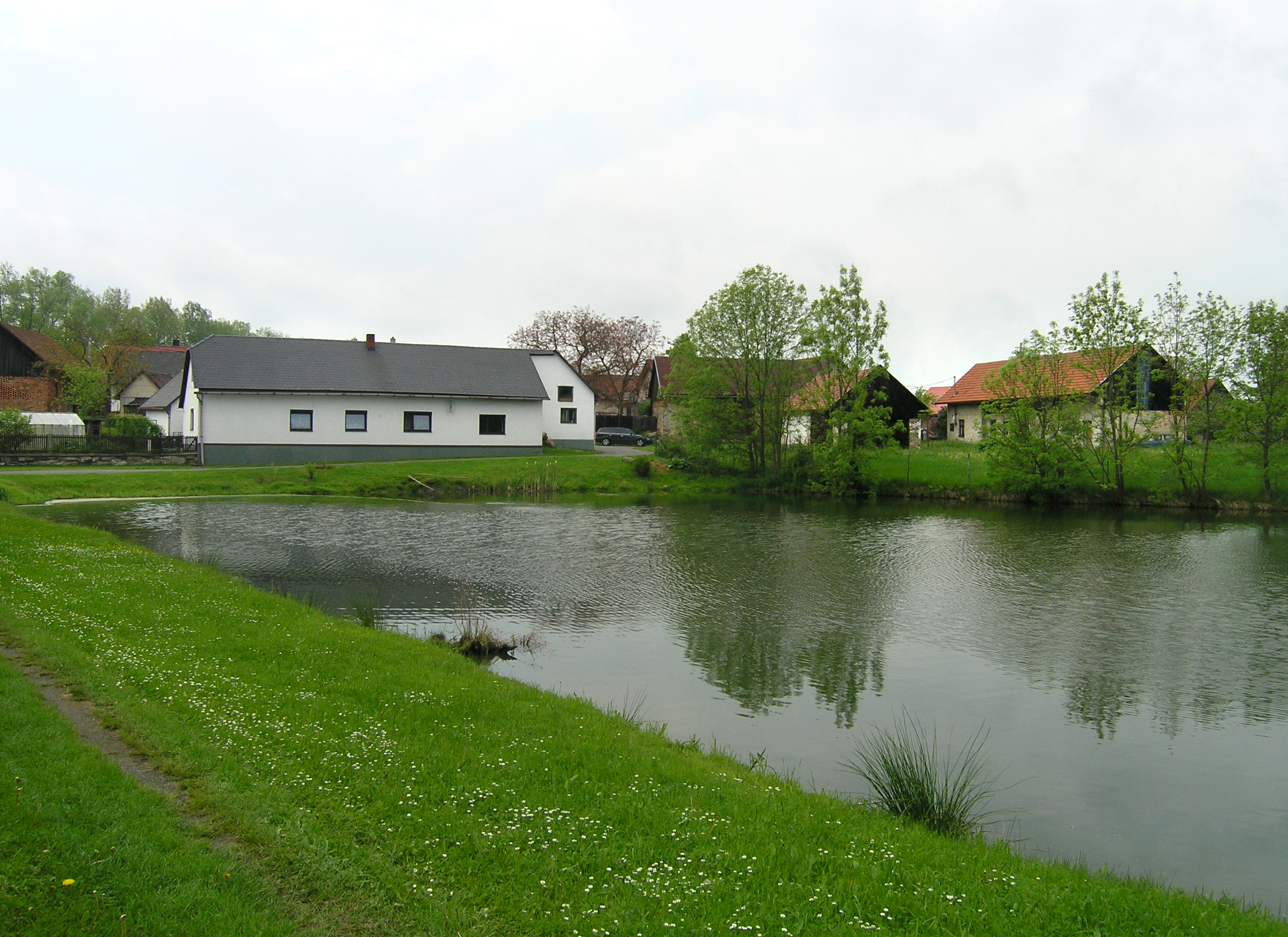 Pivovarský pond in Nejepín village, Czech Republic